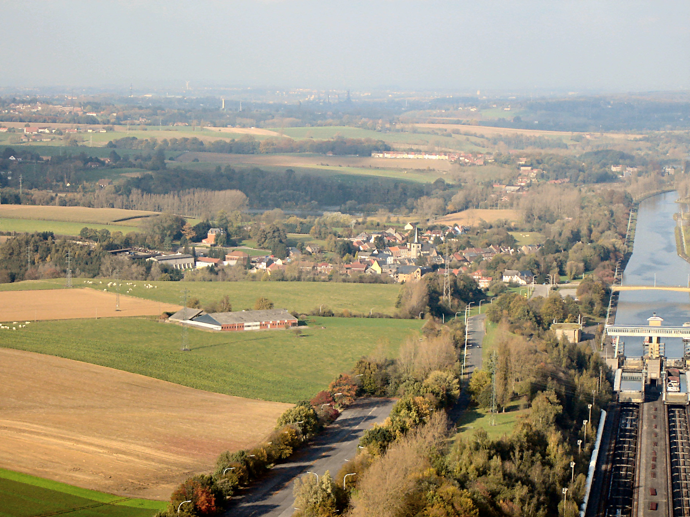 View on Ronquières and its surroundings. At the right, the Brussels-Charleroi Canal. Ronquières, Braine-le-Comte, Hainaut, Belgium